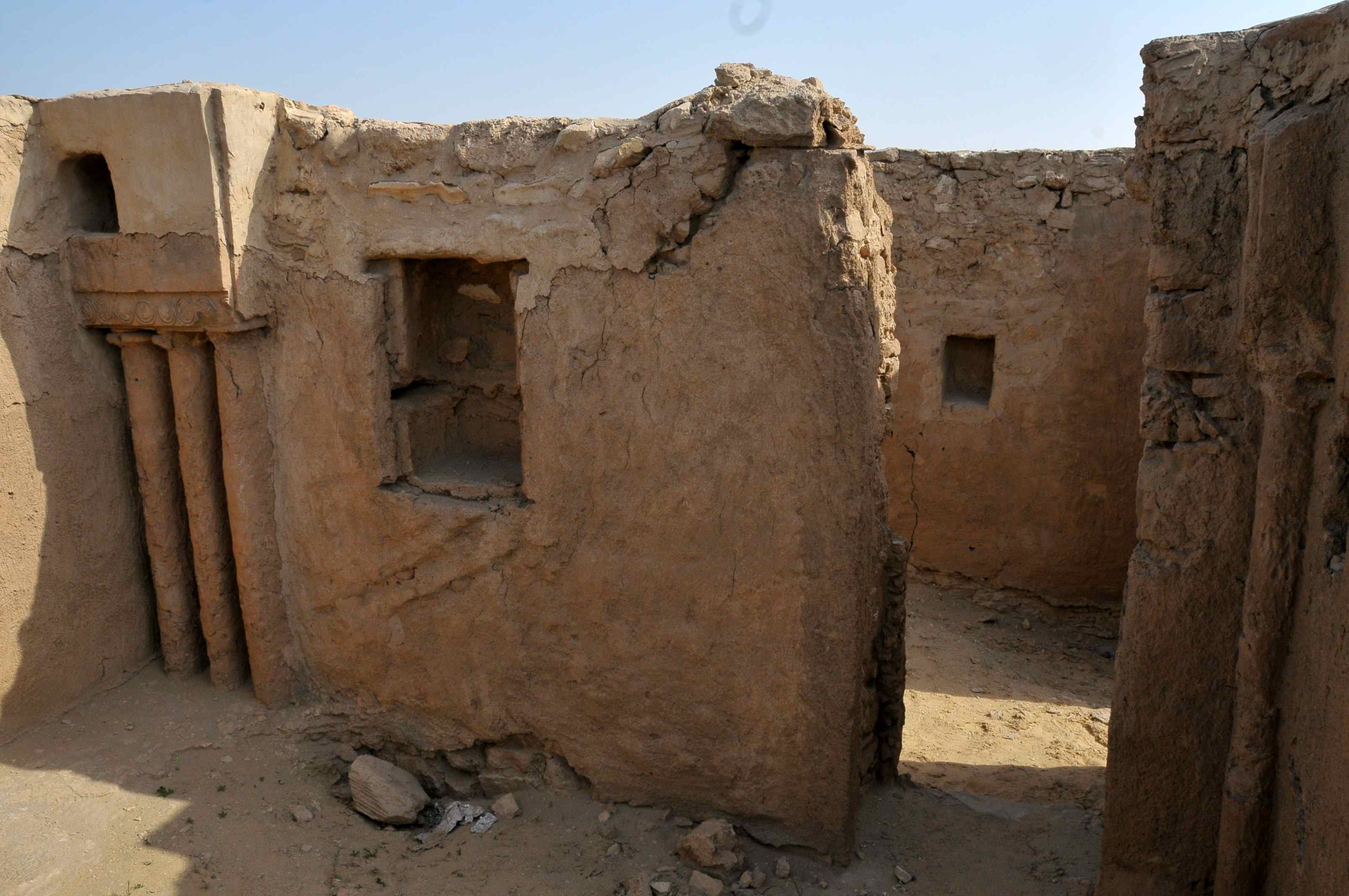 Jubail Church, an ancient (4th-century) Nestorian church building near Jubail, Saudi Arabia